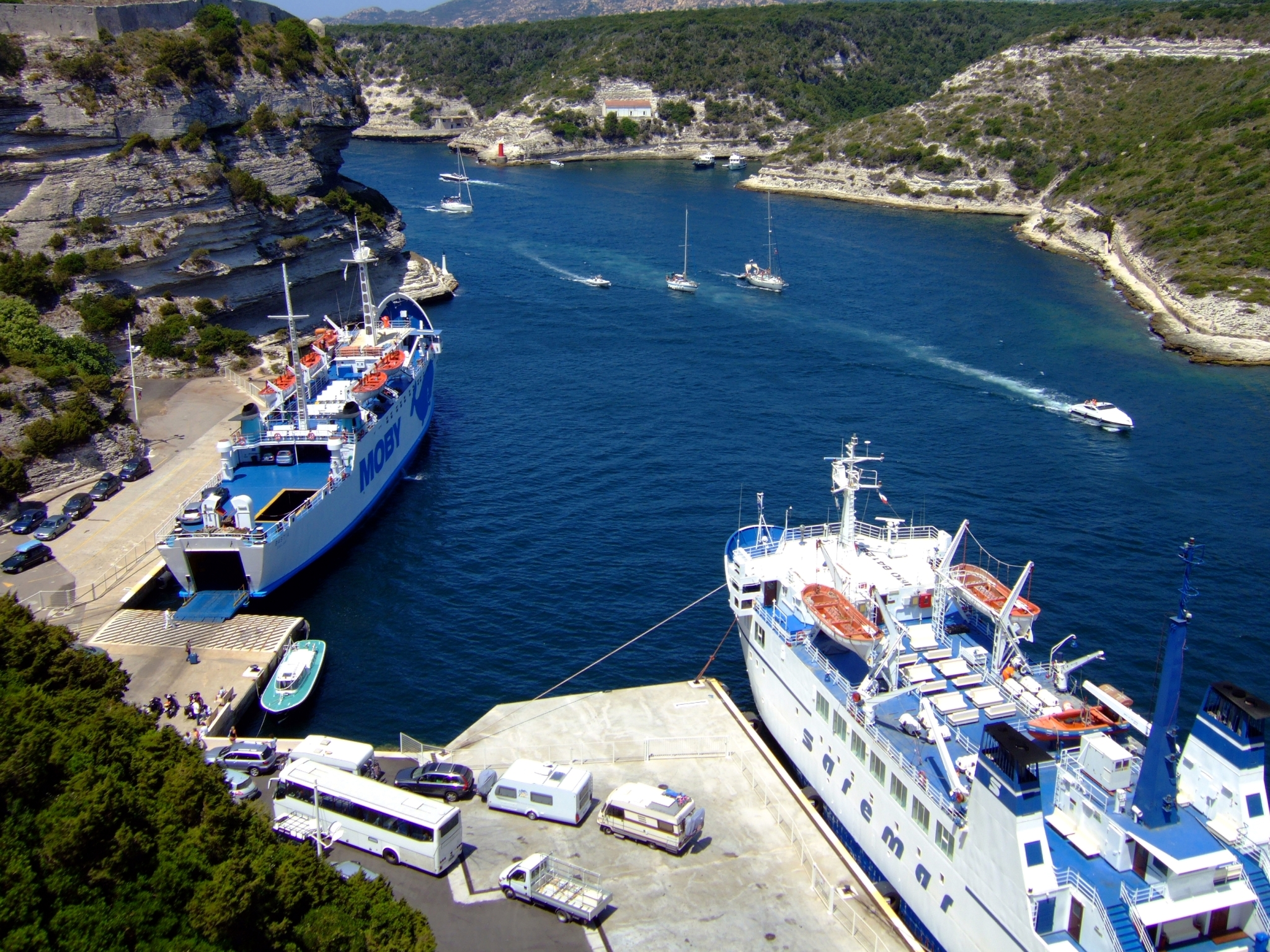 2 ferries awaiting load in Bonifacio port, Corsica, France. Their destination is Santa Teresa di Gallura, Sardinia, Italia.